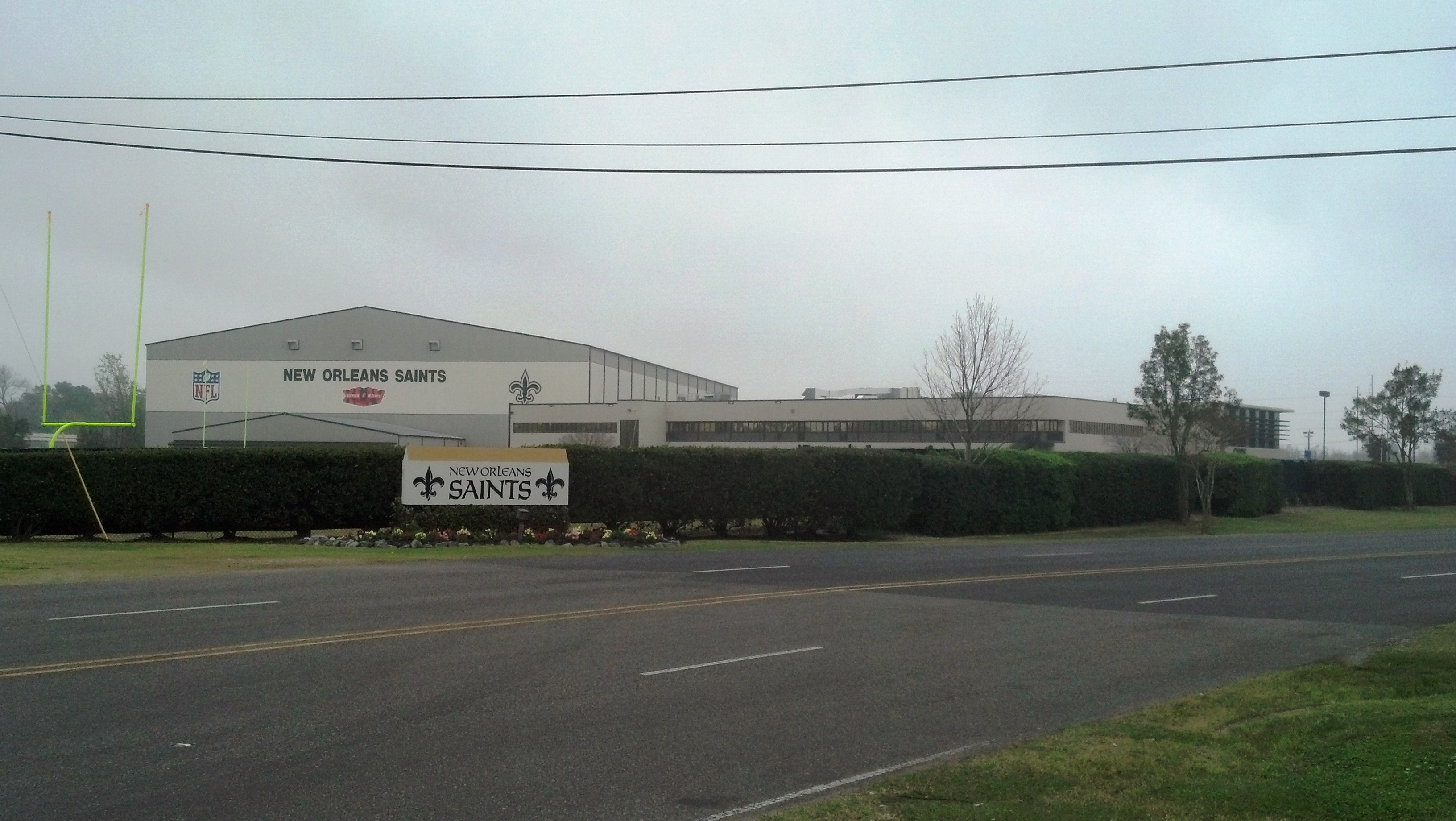 New Orleans Saints Headquarters and Practice Facility